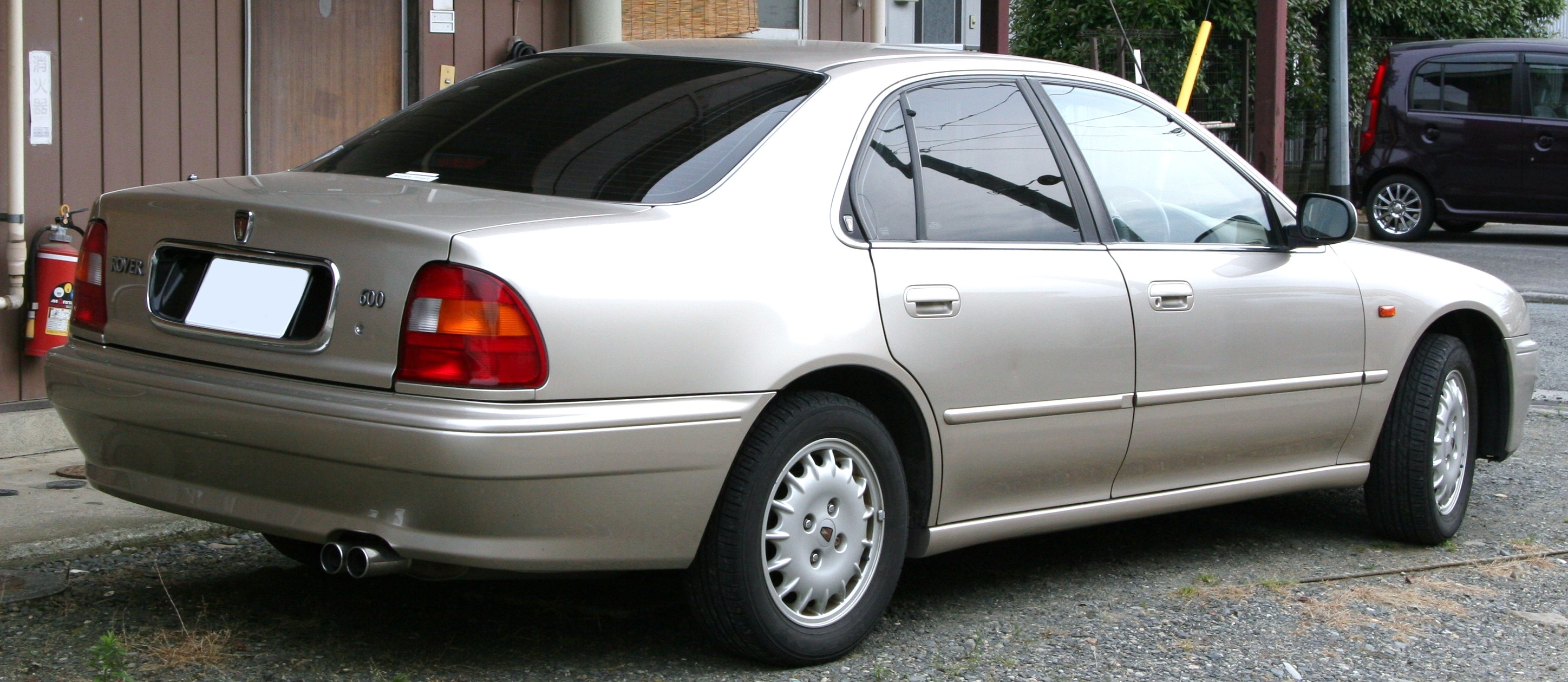 Rover 600